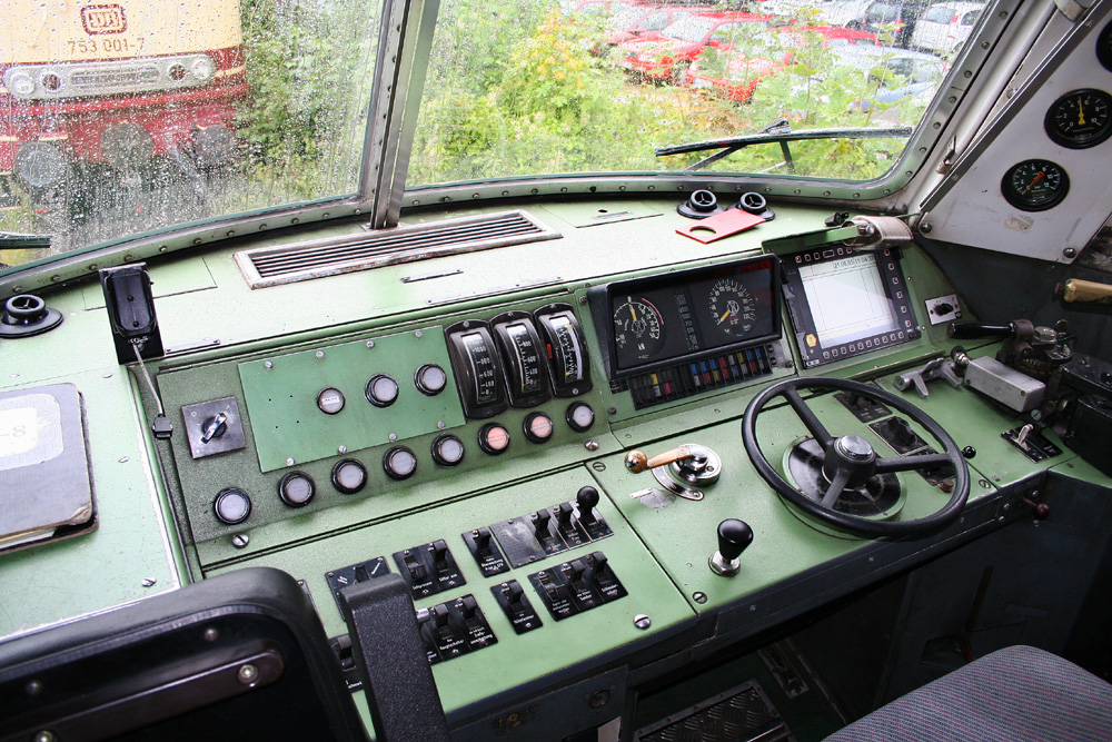 Driver's cab on a DB class 103 locomotive